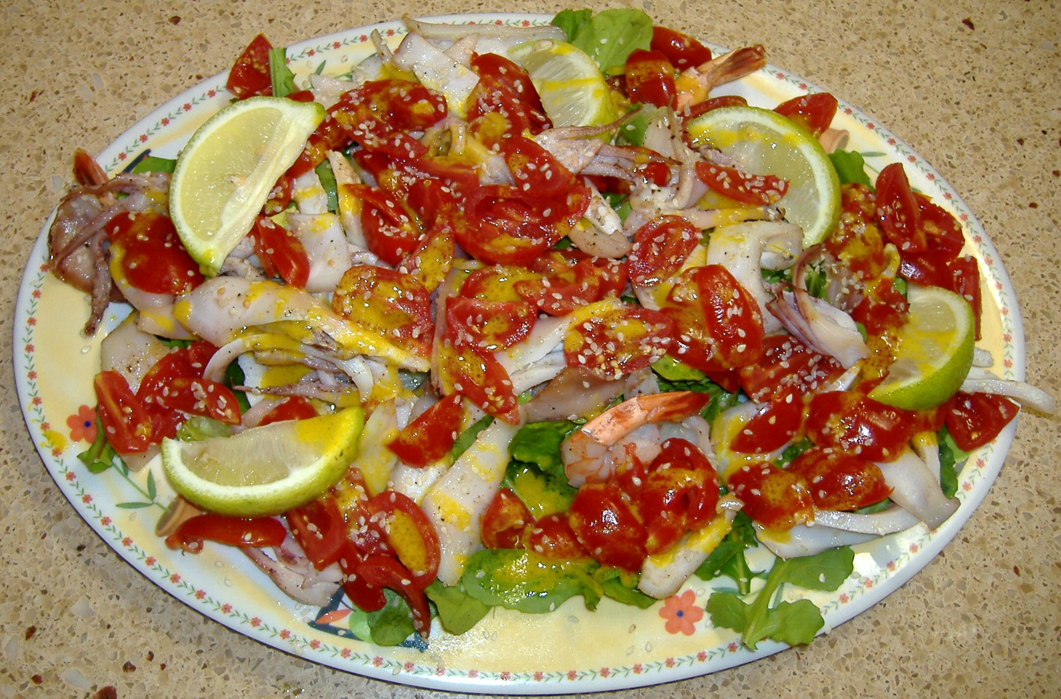 Salad of Squid, Shrimps and Cherry tomato.